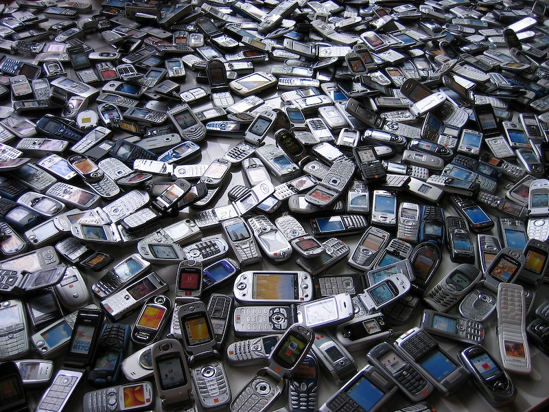 At the dana centre London, apparently for the Take Away Media-event.